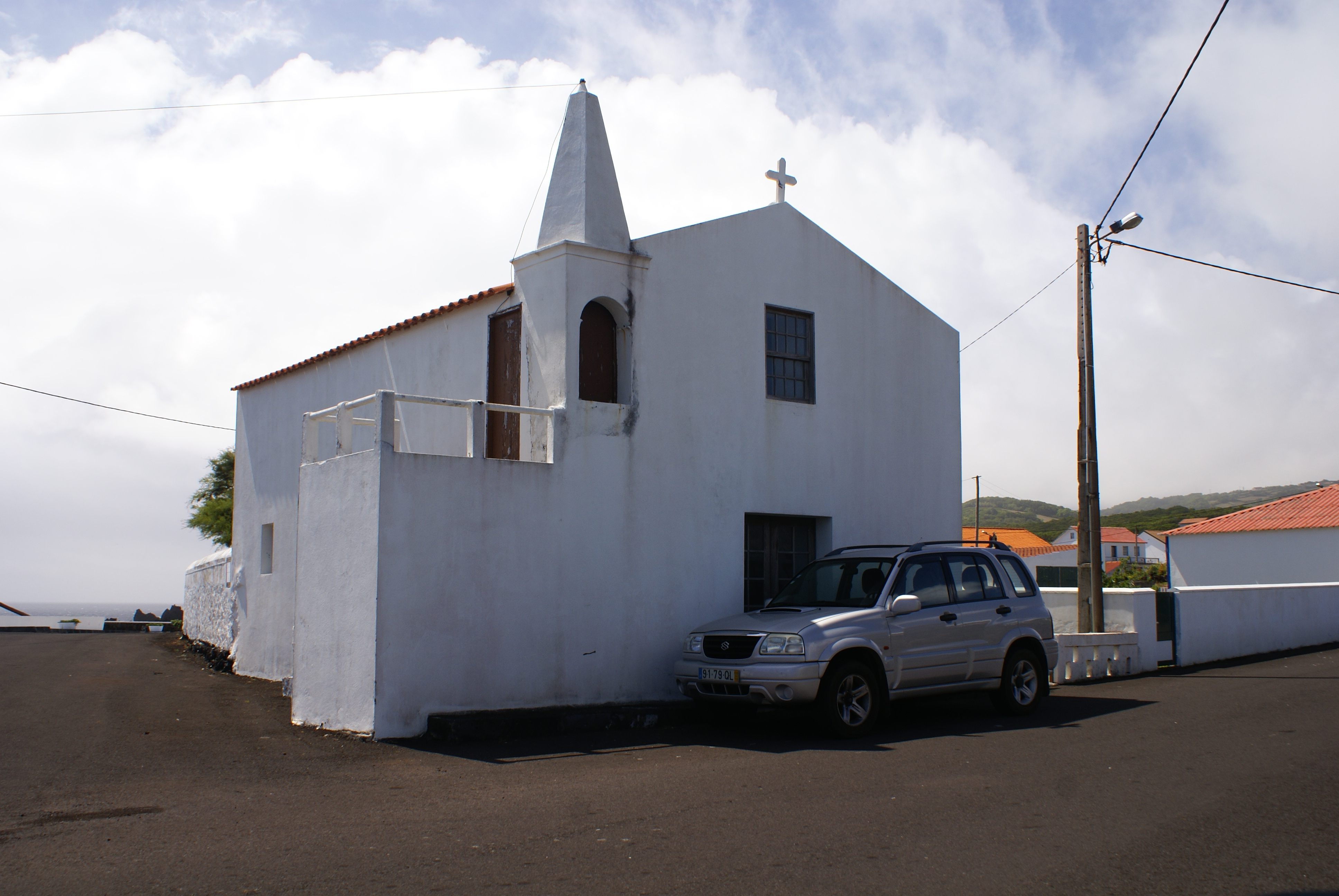 Ermida de São Tomé, Ponta da ilha, Manhenha, Piedade, Lajes do Pico, ilha do Pico, Açores, Portugal